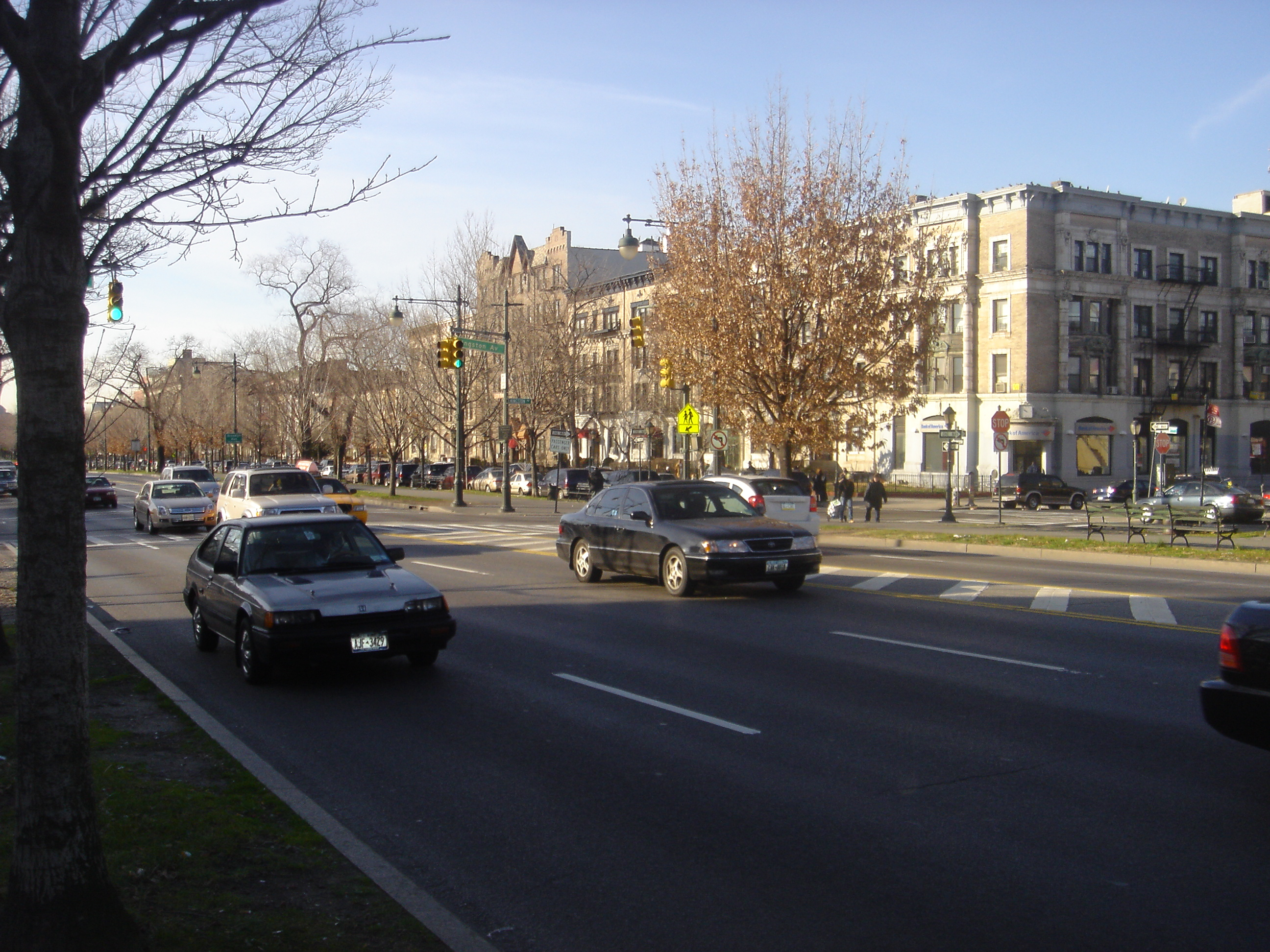 I (Nutmegger) took this photo on Dec 31, 2006 and hereby release it into the public domain.